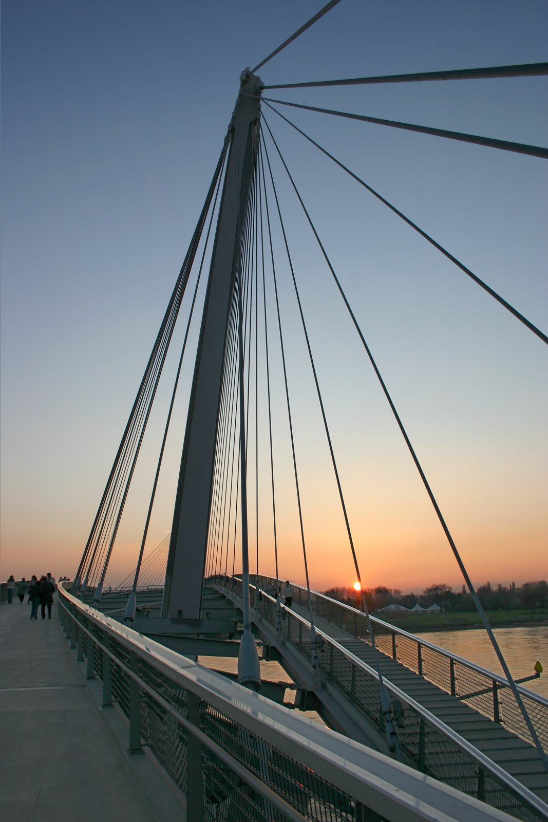 La passerelle Mimram, au Jardin des deux rives, entre Strasbourg et Kehl.